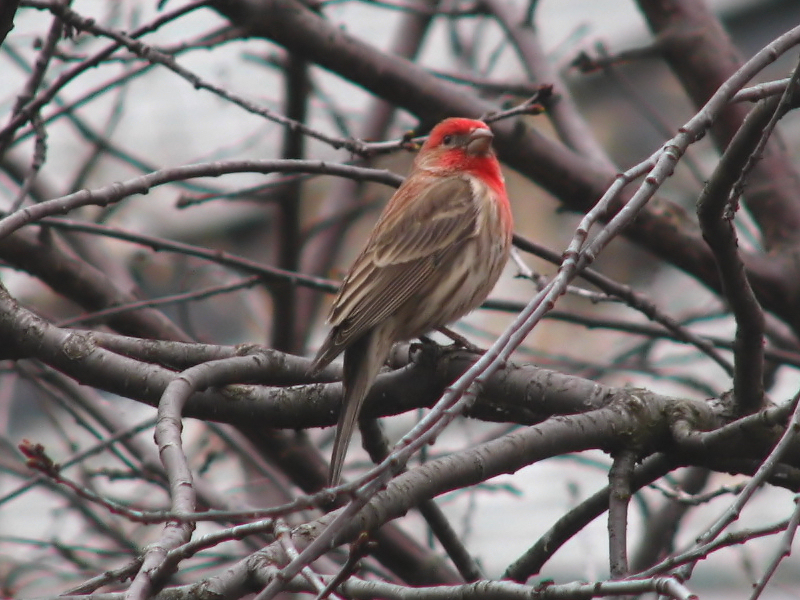 House Finch (Carpodacus mexicanus) Purple finch taken in Ottawa, Canada